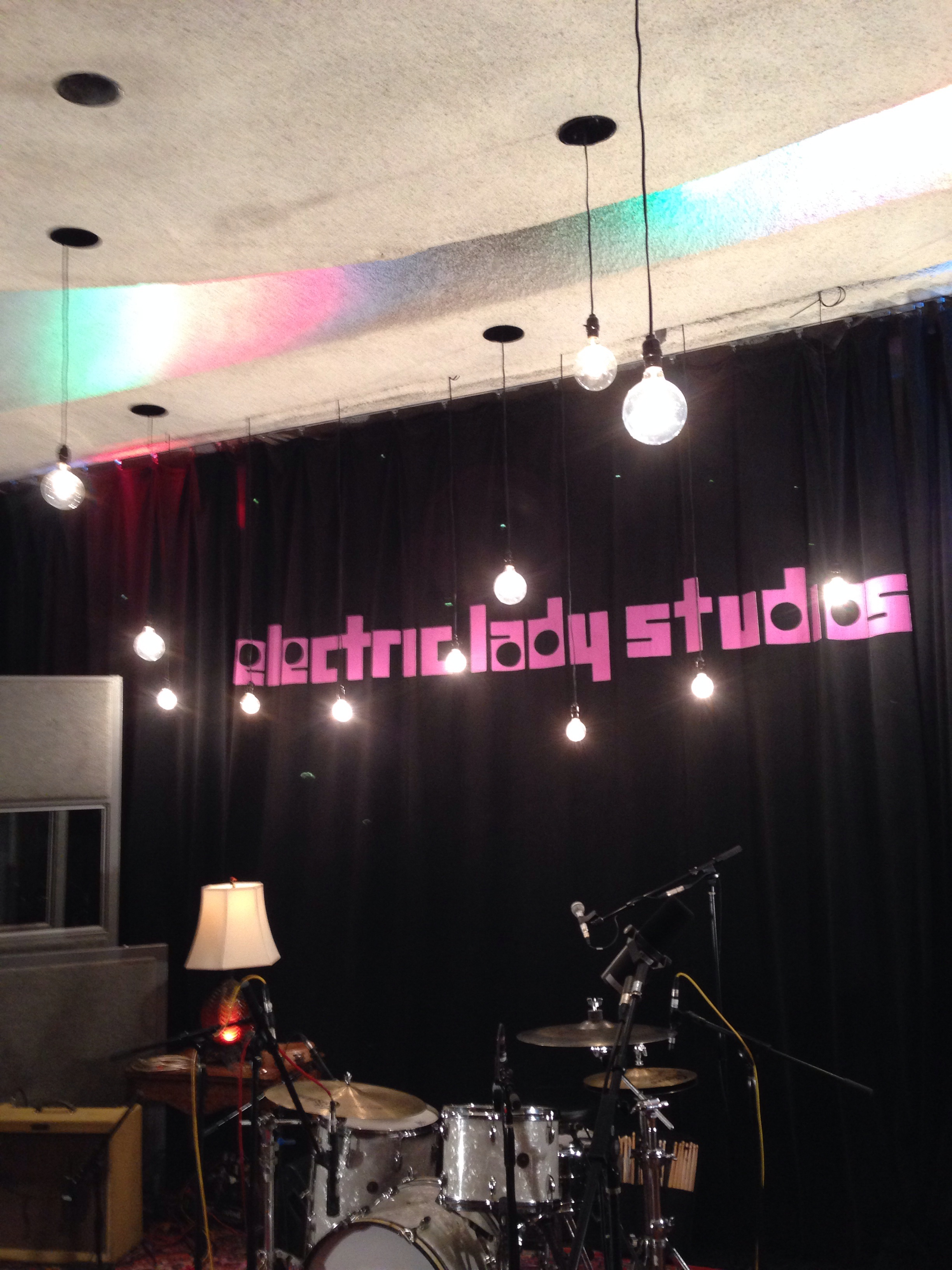 Studio A of Electric Lady Studios